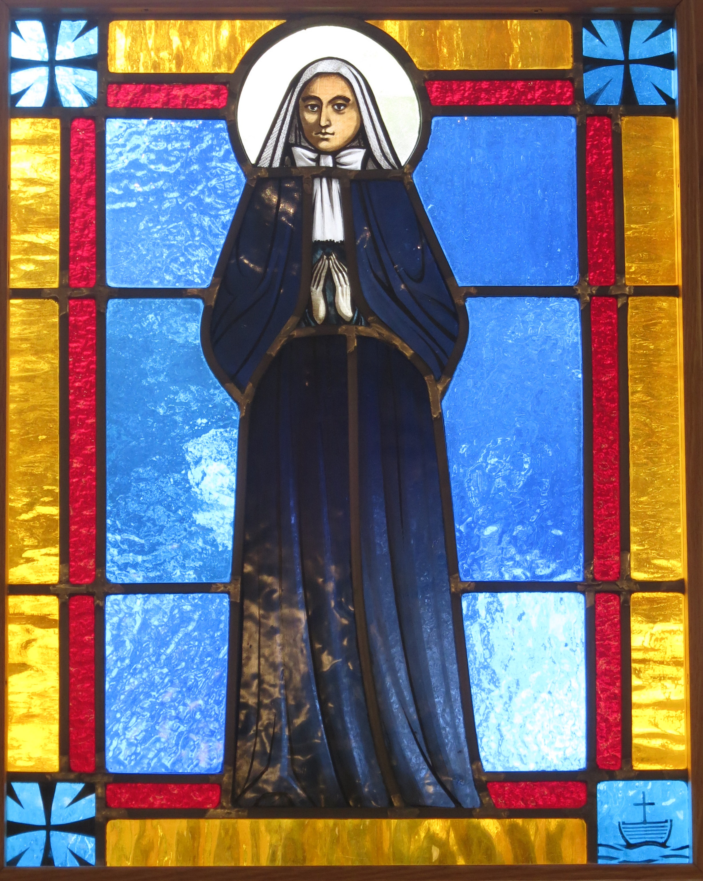 Saint Stephen, Martyr Roman Catholic Church (Chesapeake, Virginia) - stained glass, St. Frances Xavier Cabrini